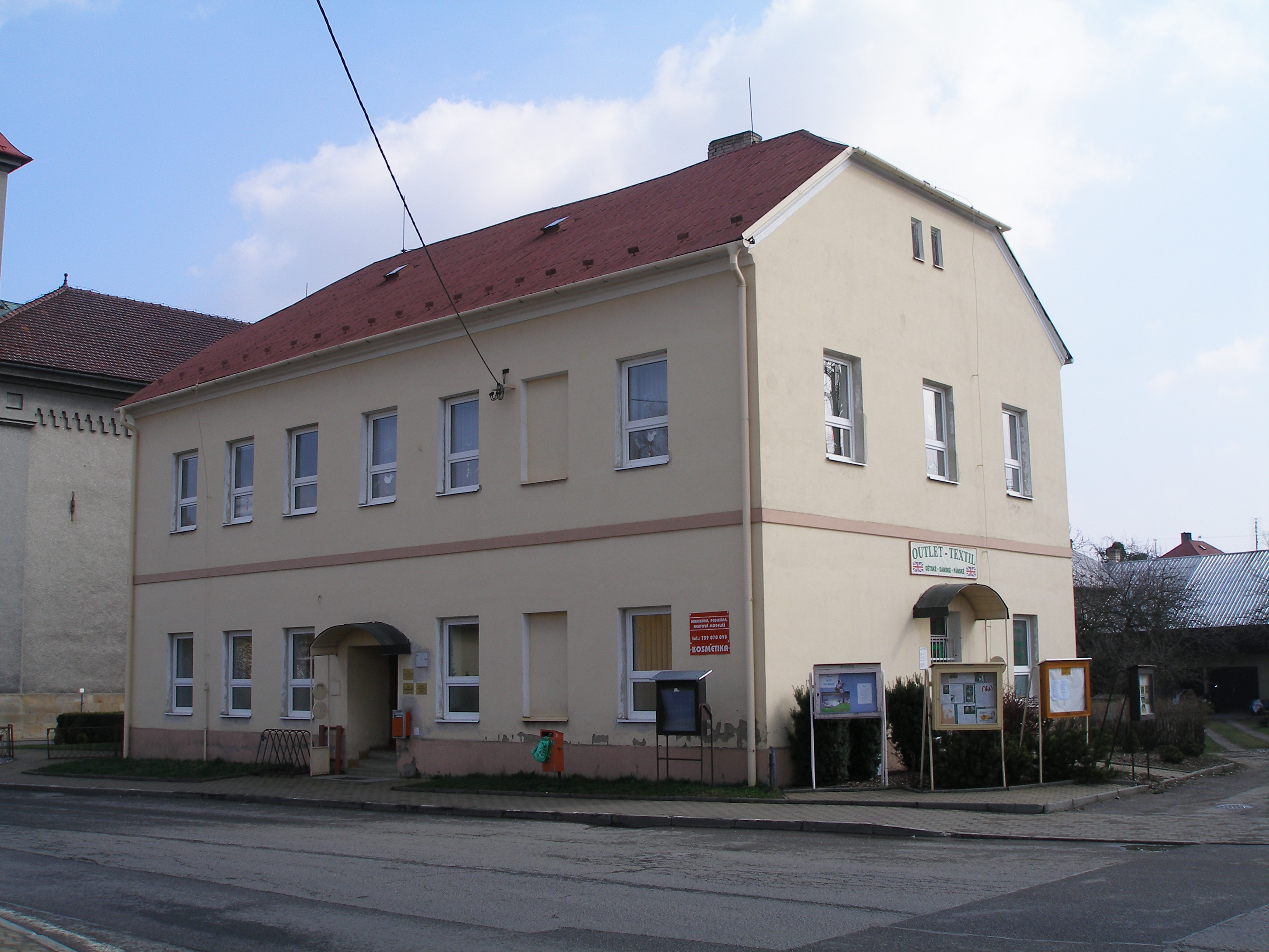 Health center (former elementary school) in Mořkov.